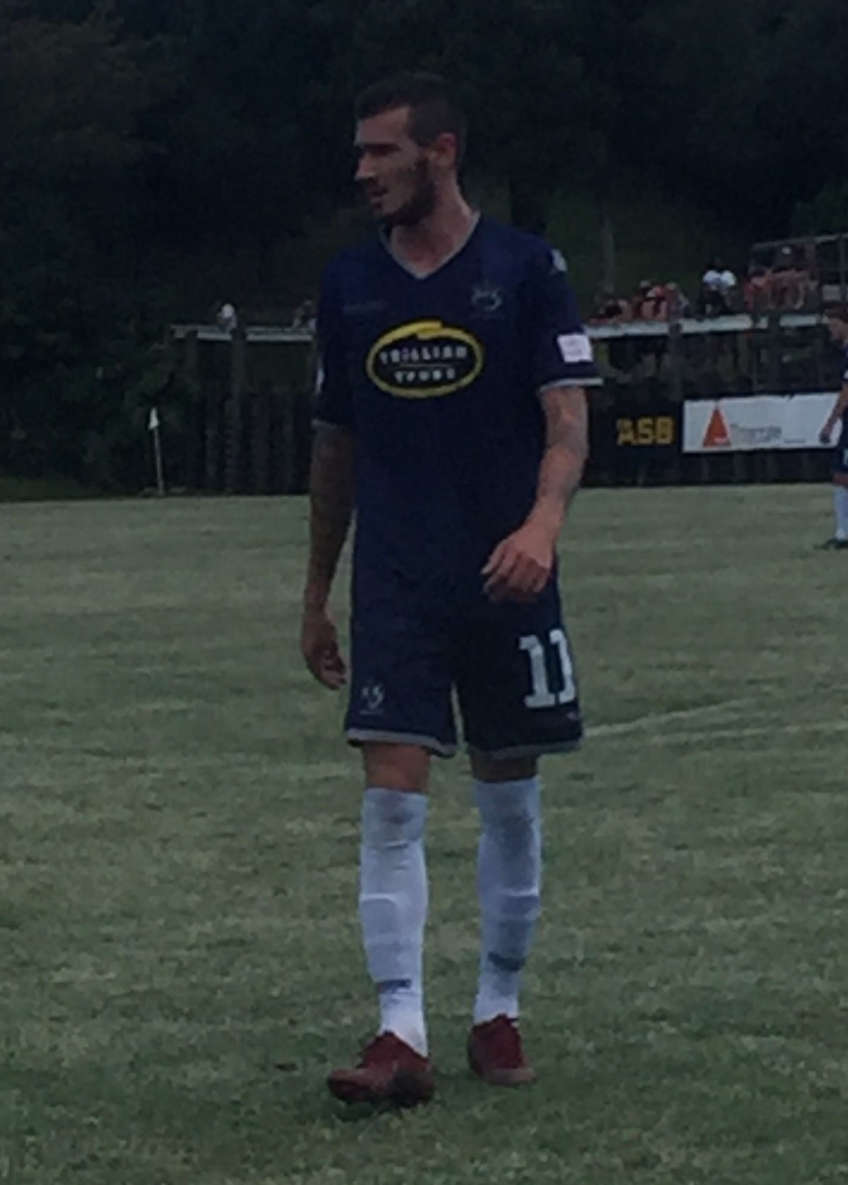 Fabrizio Tavano playing for Auckland City against Wellington Phoenix Reserves on 10 February 2019